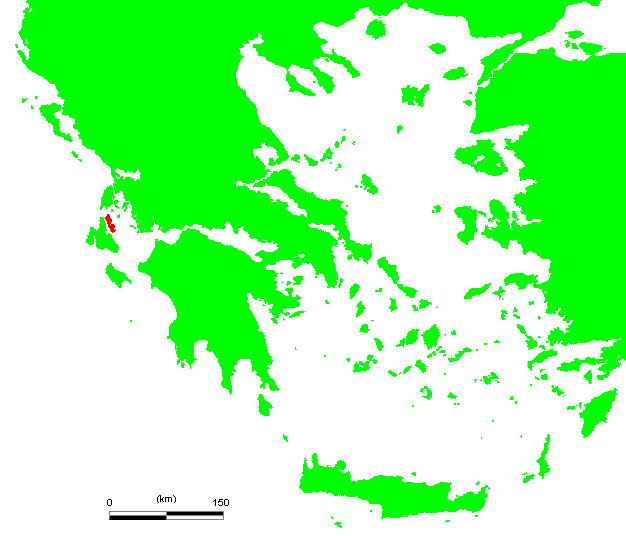 GR Ithaca.PNG (Greek island)